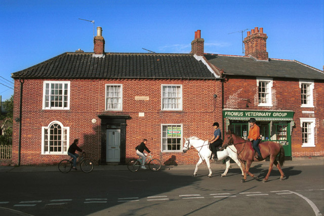 Home of author George Orwell, Southwold. Occupied by the writer as a retreat for many years. Burmese Days was mostly written here.